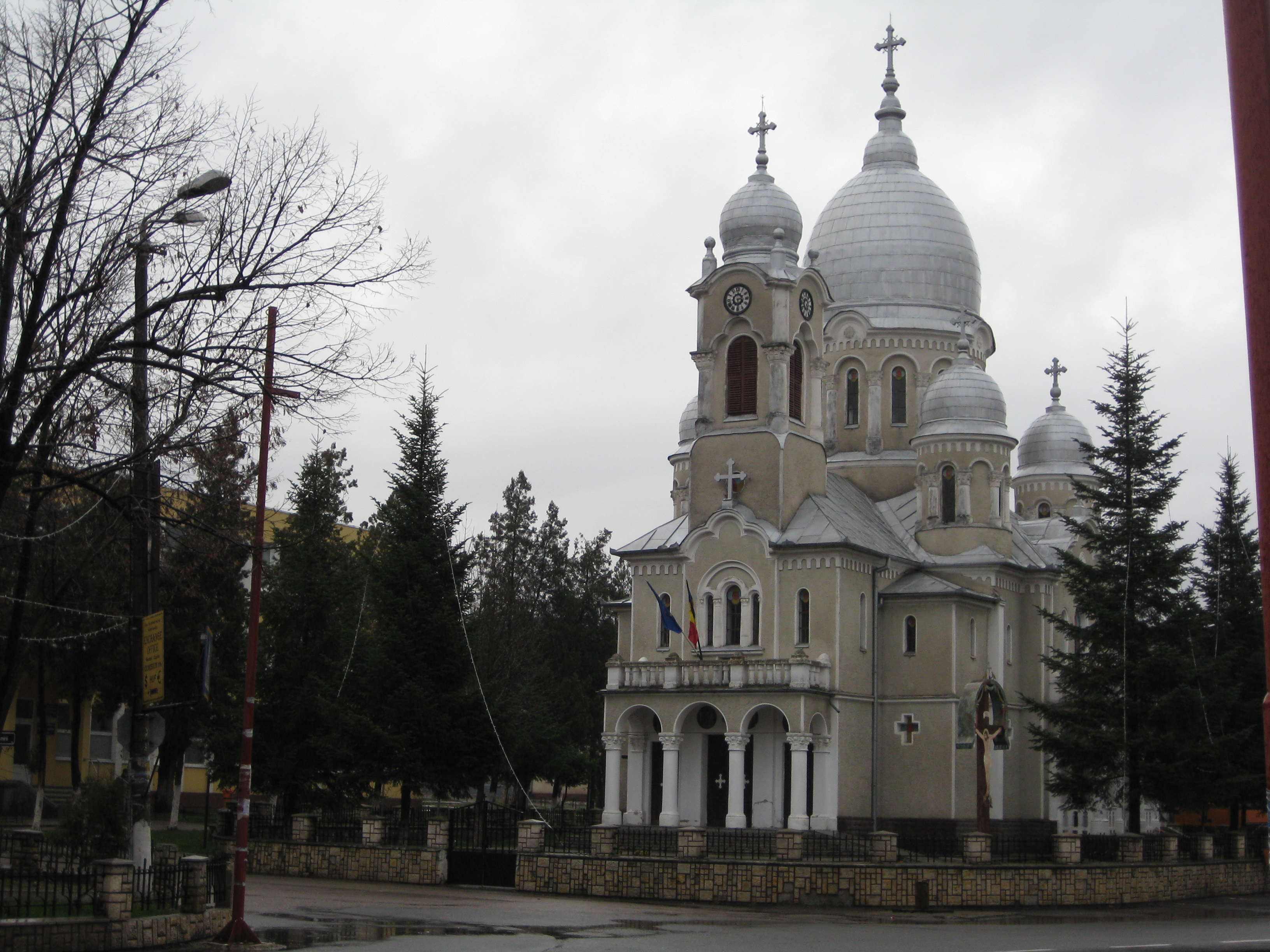 Alesd - Orthodox church